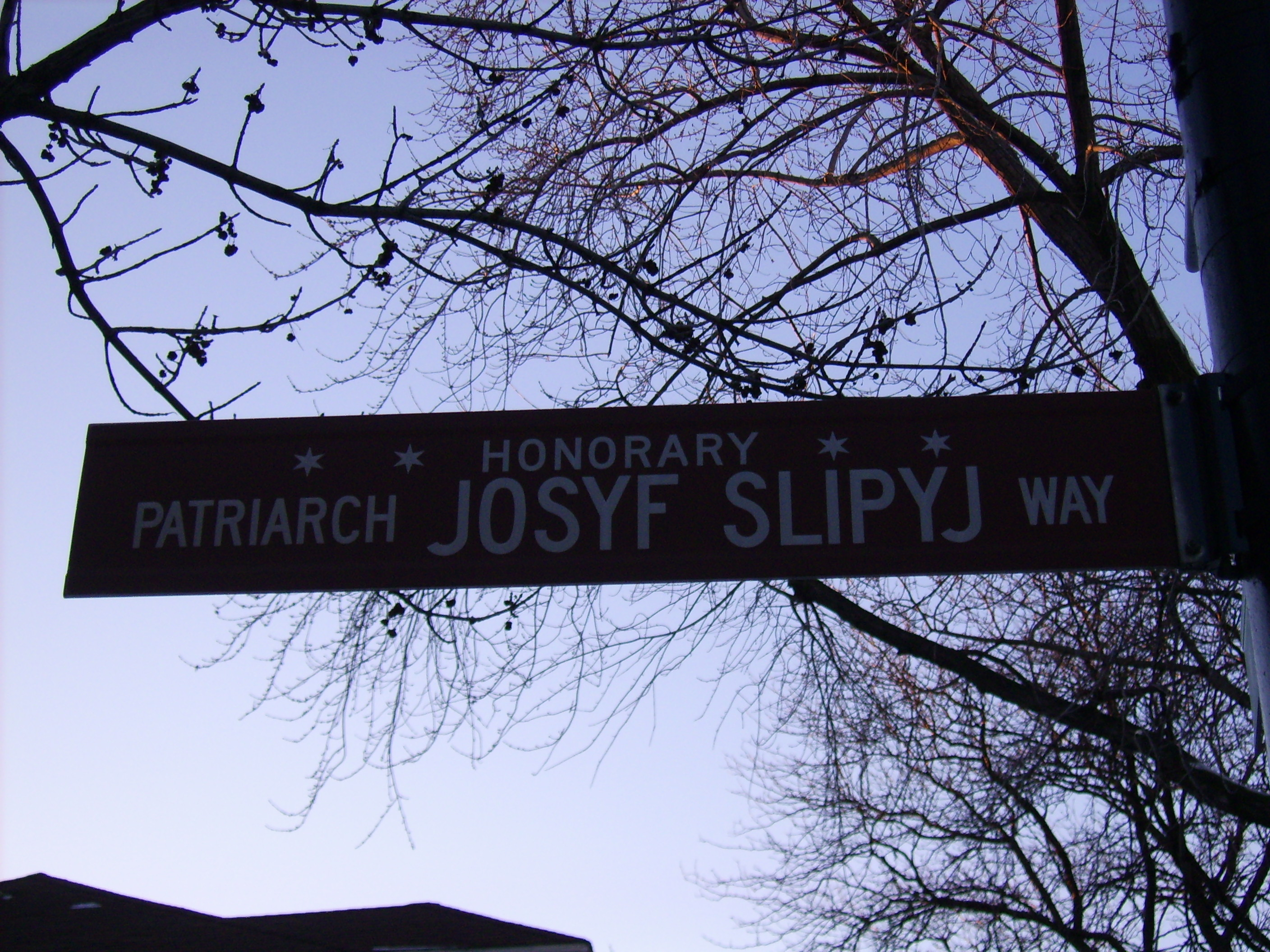 Josyf Cardinal Slipyj honorary street in Chicago, IL